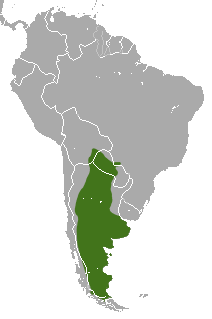 Large Hairy Armadillo (Chaetophractus villosus) range